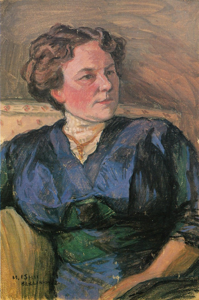 German lady